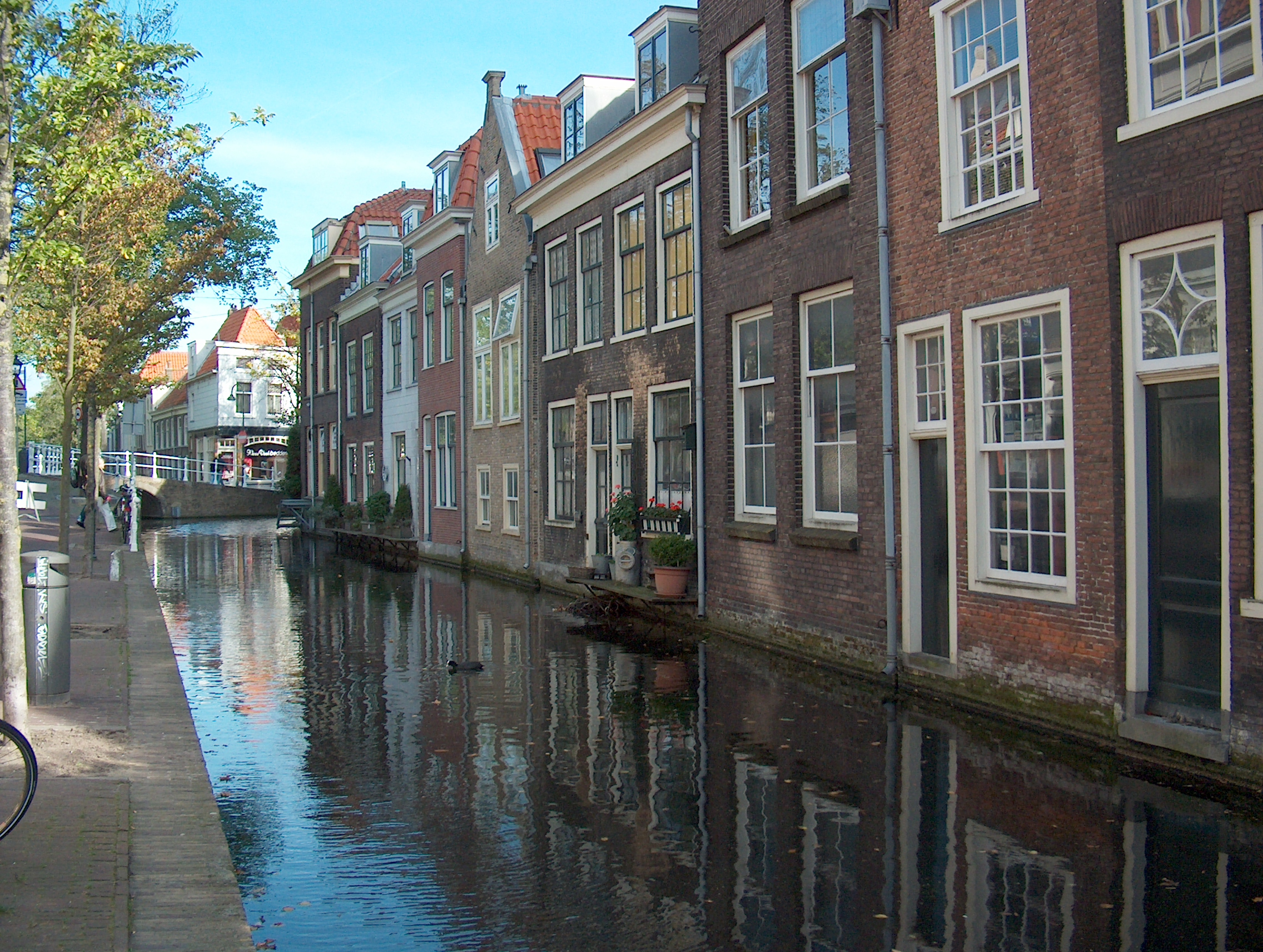 the Netherlands, city of Delft, Voldersgracht